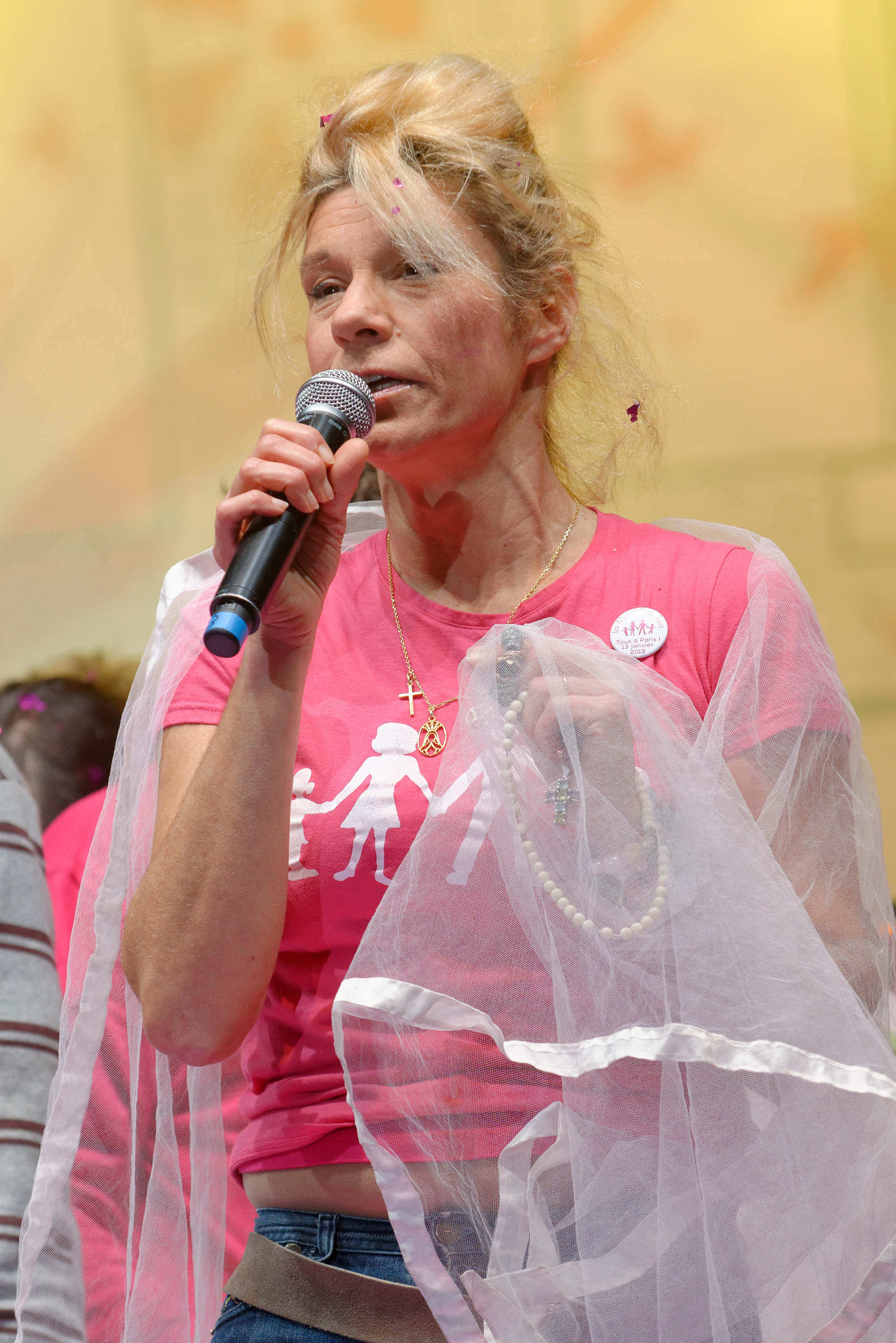 Frigide Barjot on the podium during the demonstration against same-sex marriage in Paris on 13 January 2013 (“Manif pour tous”): the procession coming from Place d'Italie.